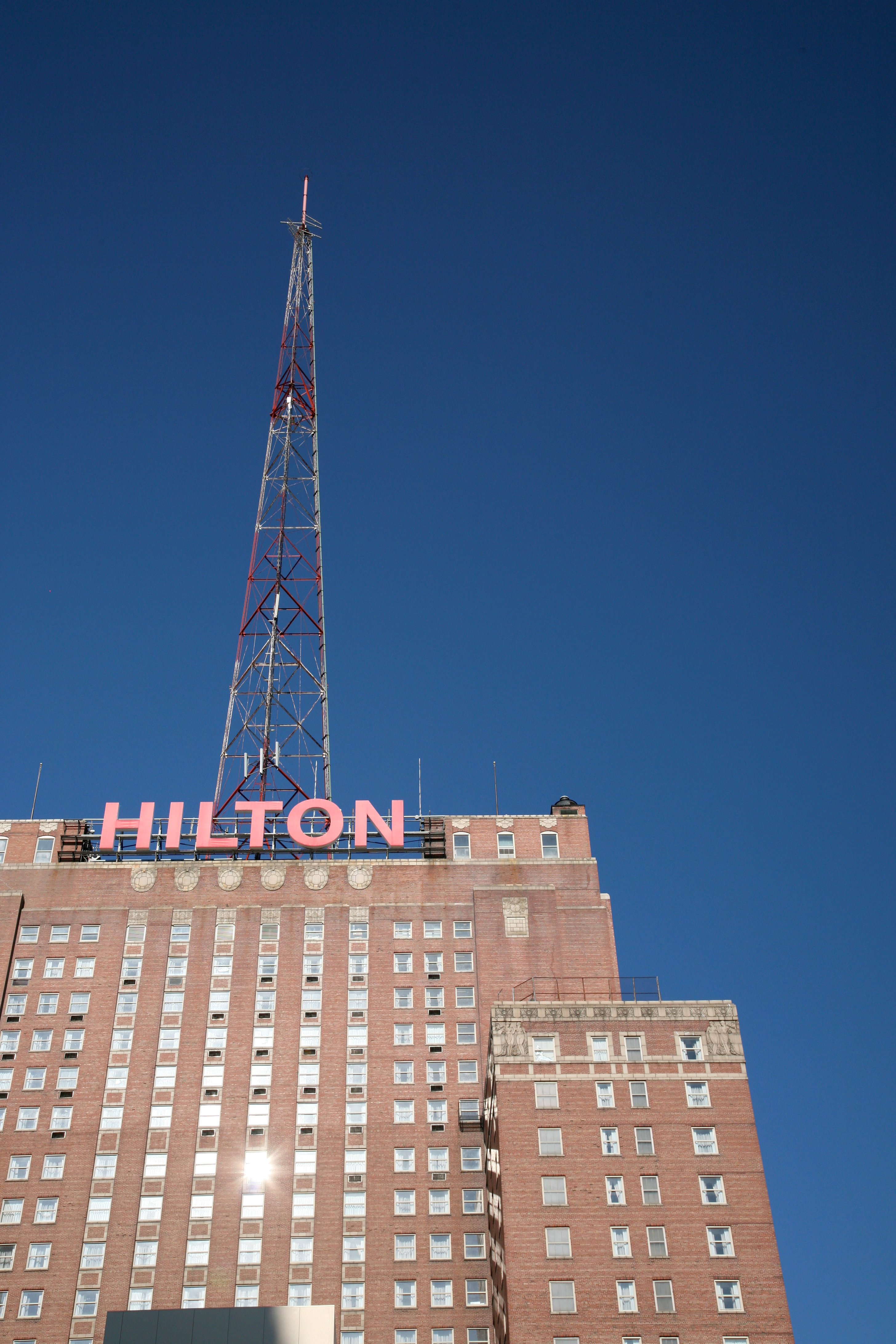 Walter Schroeder built what was for many years the Schroeder Hotel. Its 24 stories make it the tallest hotel in Wisconsin. The first five floors are decorated with numerous Art Deco carvings, and the building employs setbacks on upper floors characteristic of this era's designs.